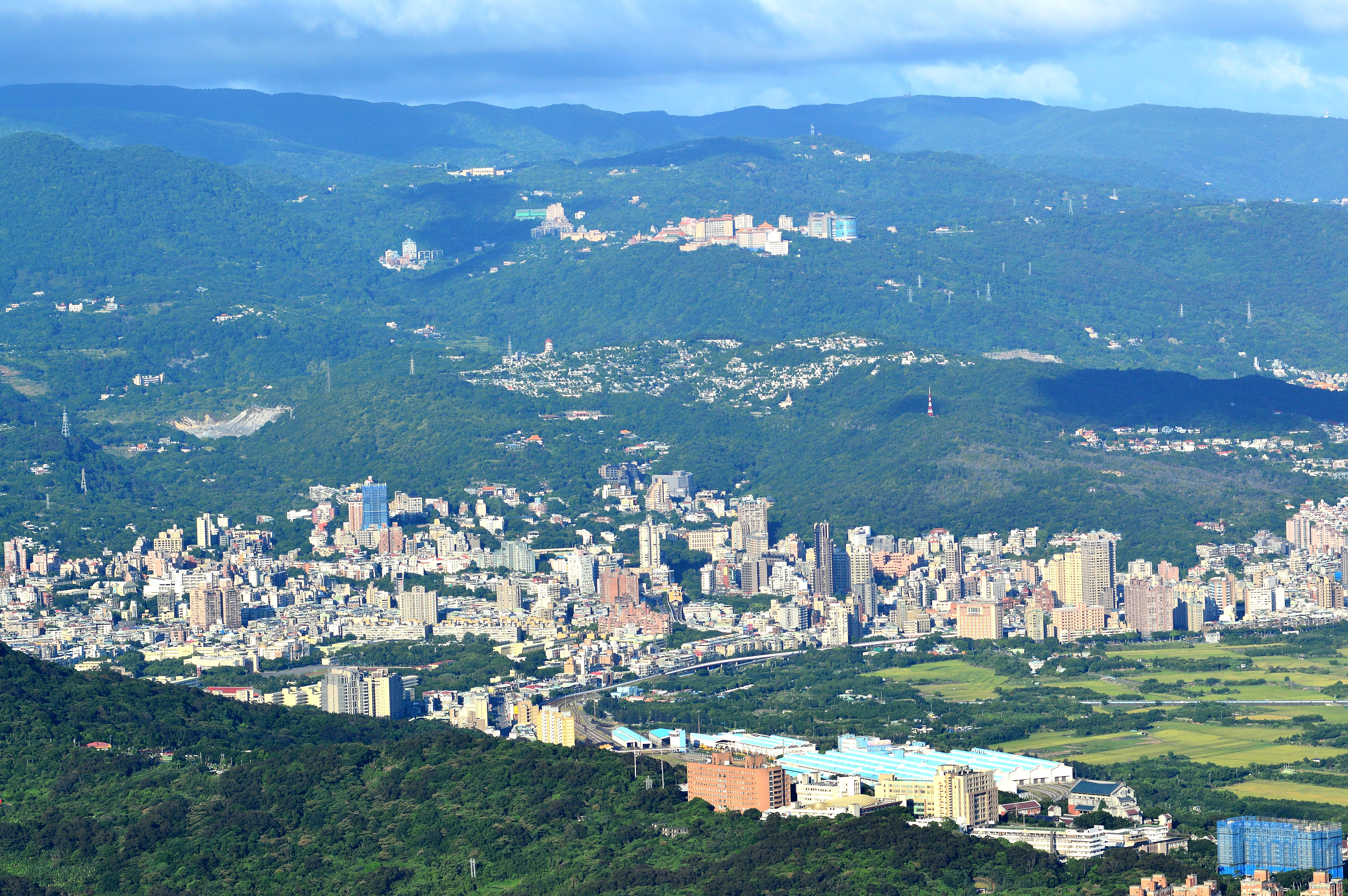 Beitou Depot